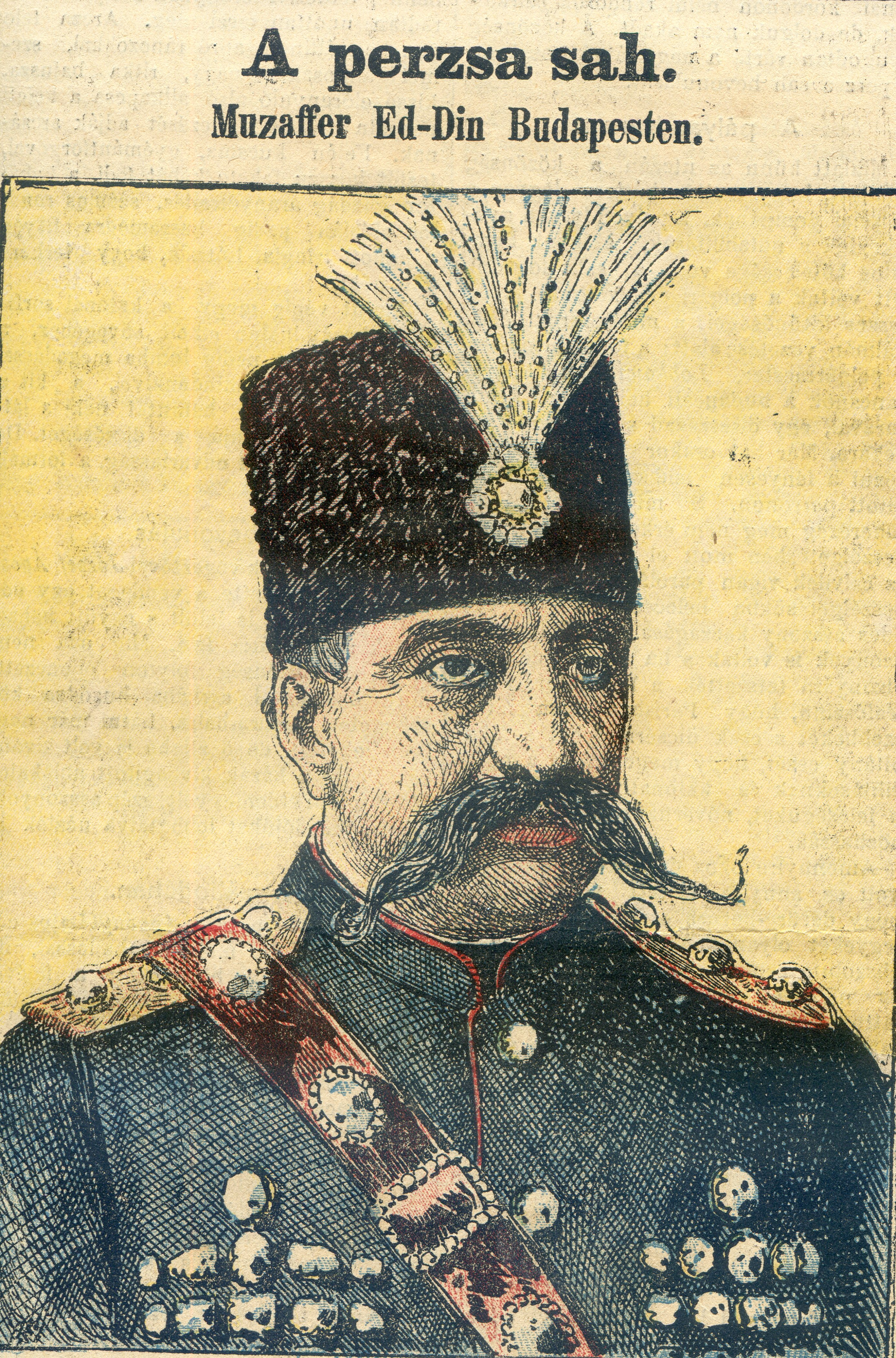 Pesti news(Pesti Újság), September 25, 1900 Mozaffar ad-Din Shah in Budapest.